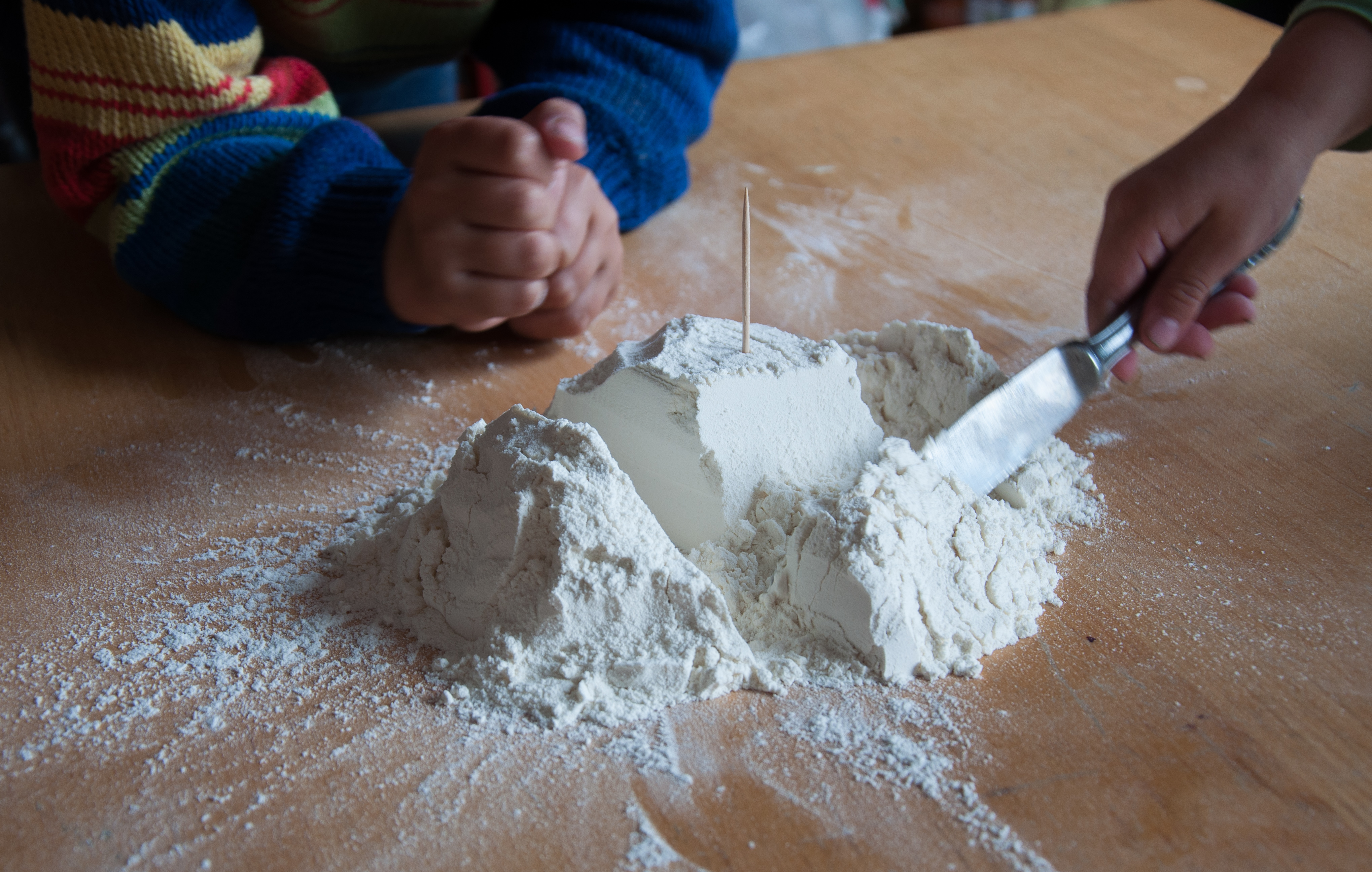 Partygame meal cutting